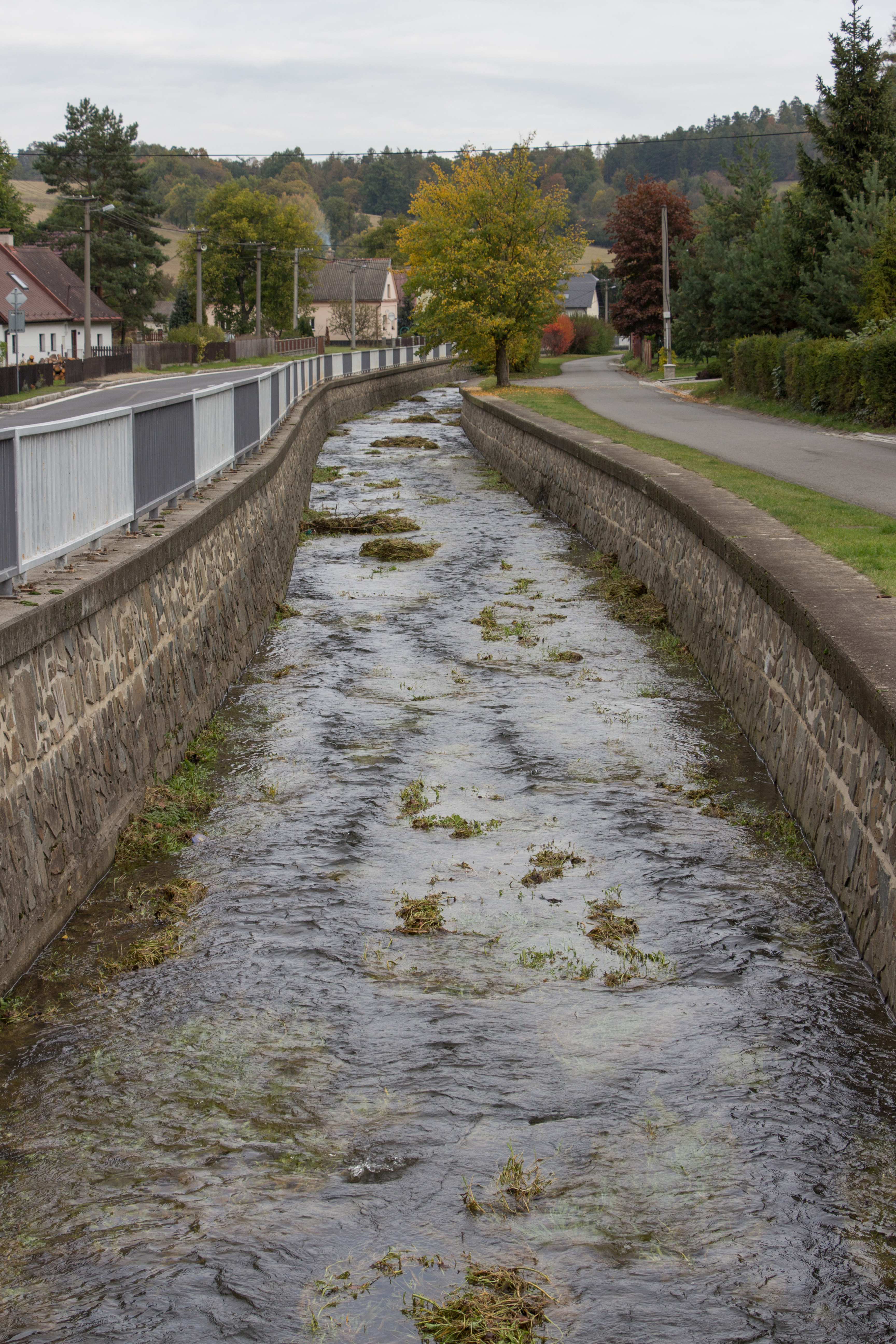 Čižina River. Lichnov, Bruntal District, Czech Republic